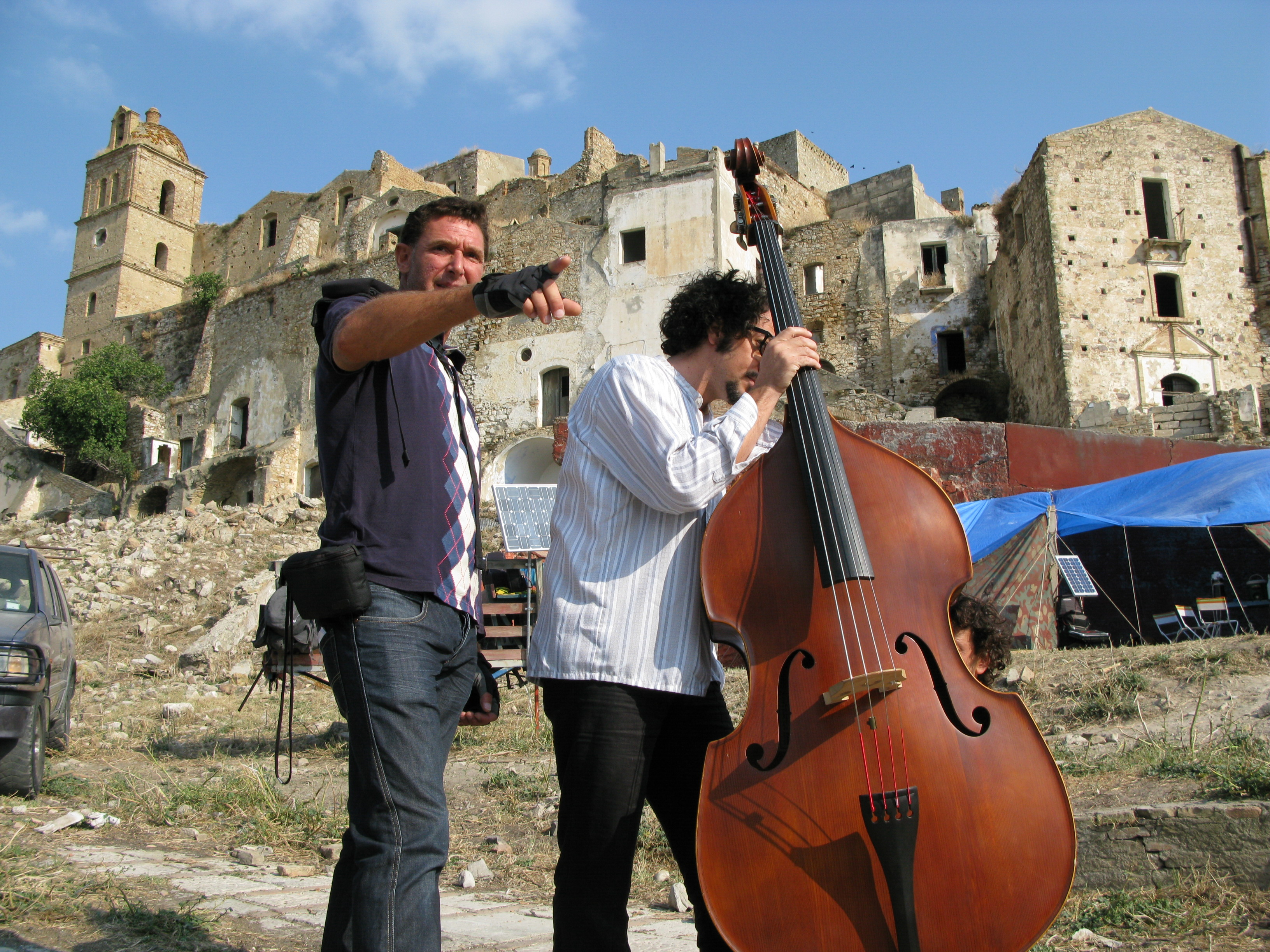 F.Olmi M,Gazzè